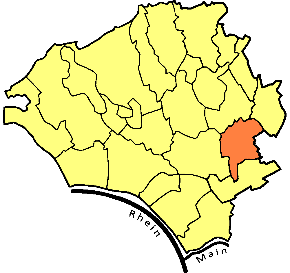 Map of Wiesbaden showing the location of Nordenstadt